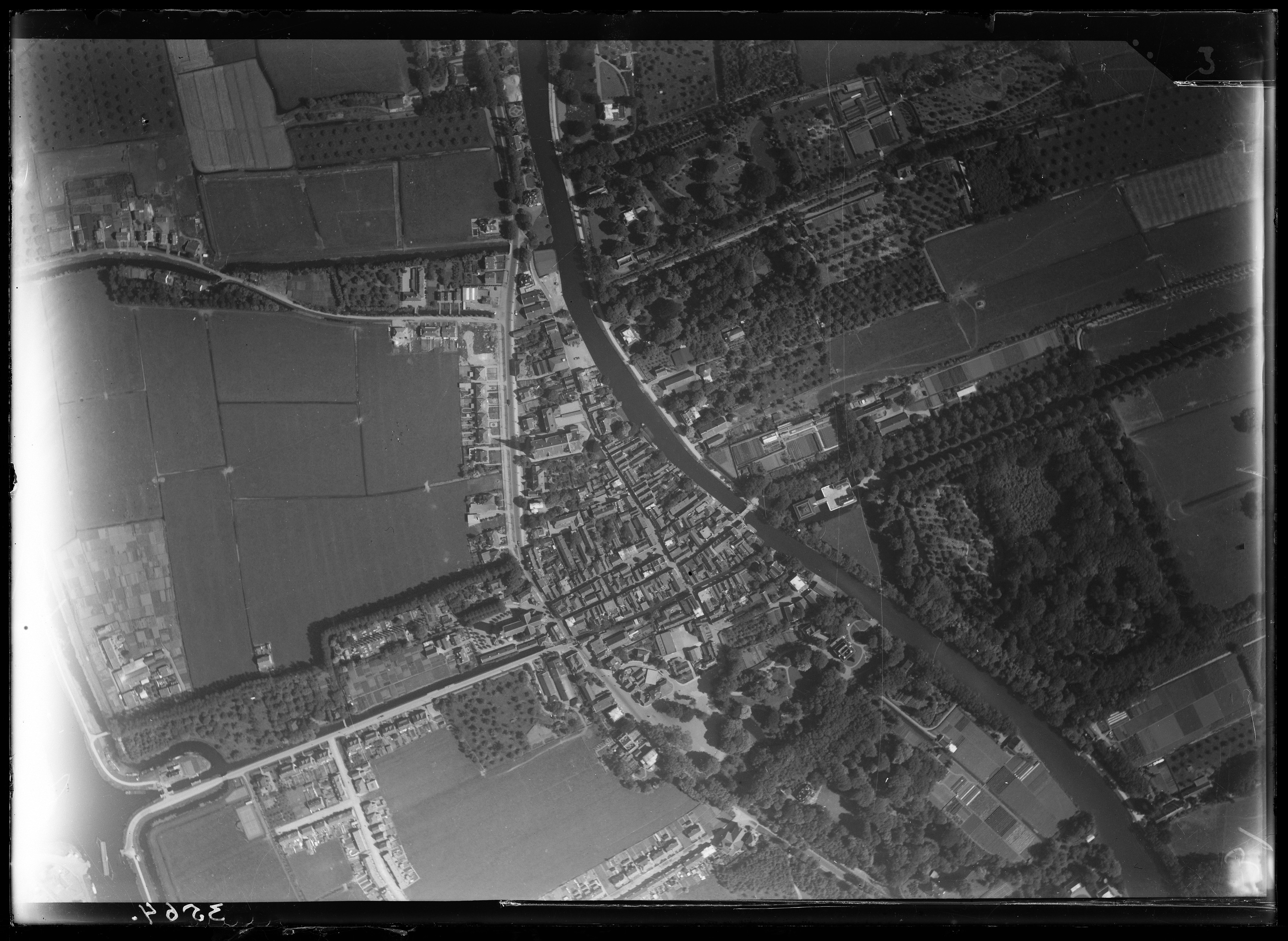 Aerial photograph of Breukelen, The Netherlands. Gunterstein.